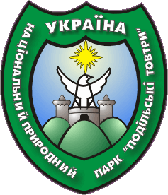 National Environmental Park "Podilski Tovtry"